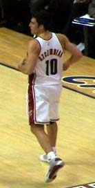 Wally Szczerbiak of the Cleveland Cavaliers